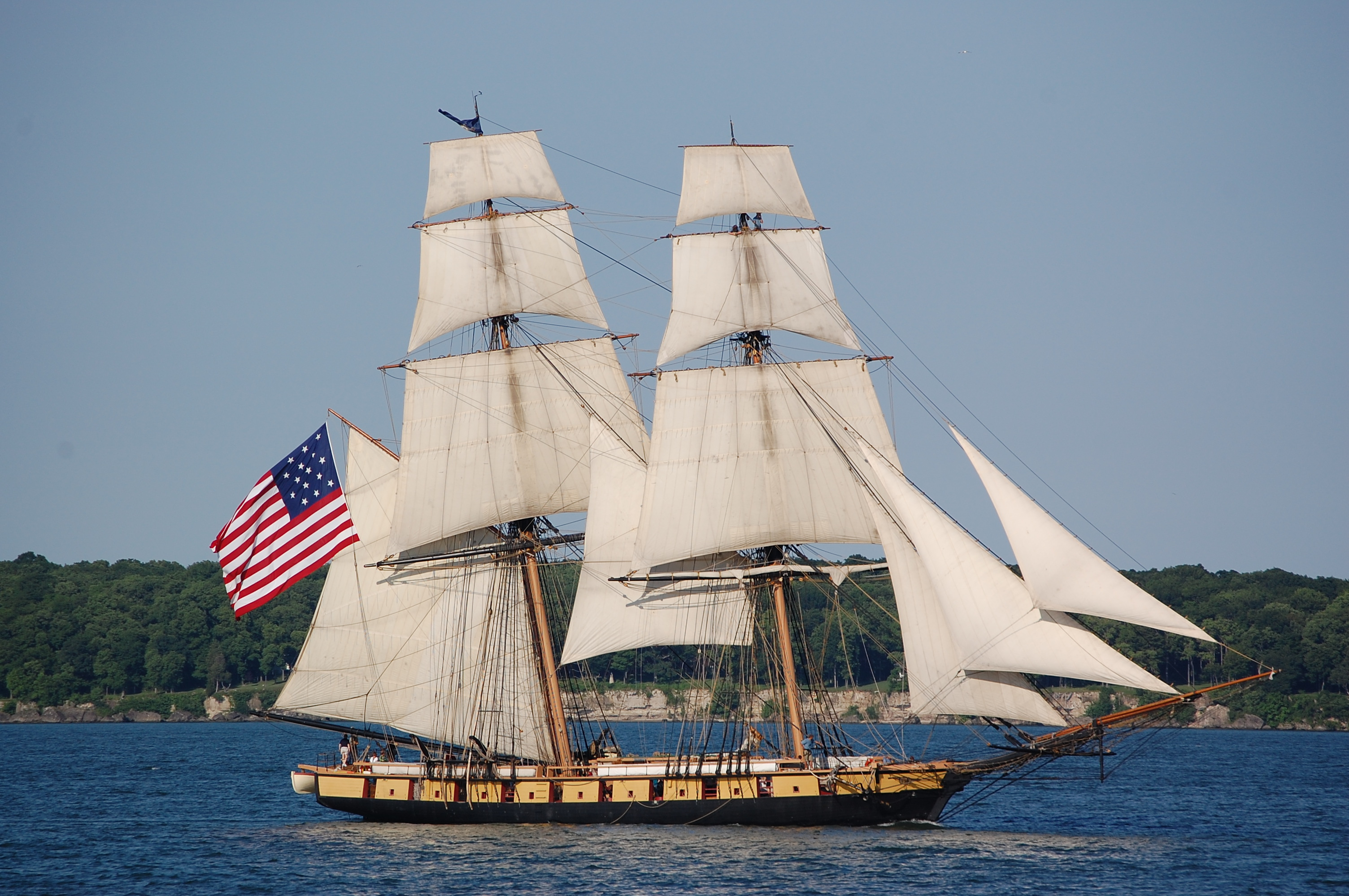 The Brig Niagara under full sail, off of South Bass Island, Ohio on Lake Erie.